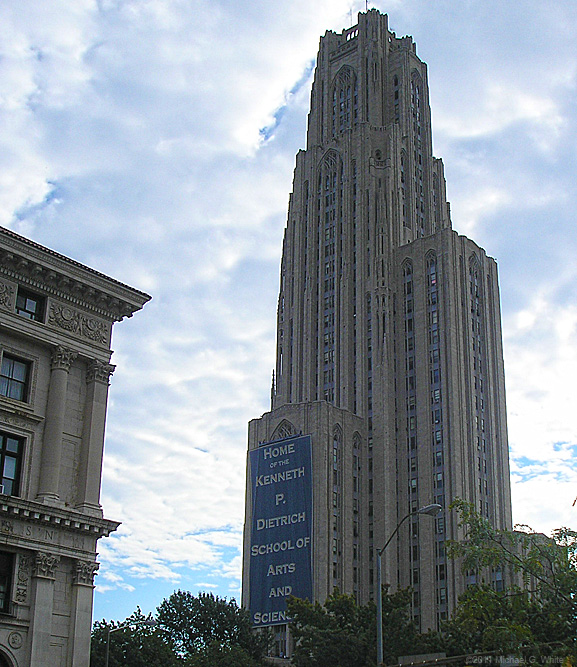 The University of Pitsburgh's Cathedral of Learning on September 25, 2011. A large banner hangs from the Cathedral's 16th to the fifth floor in celebration of the announcement of the renaming of the university's School of Arts and Sciences to the Kenneth P. Dietrich School of Arts and Sciences in honor of a $125 million donation received from William S. Dietrich II.